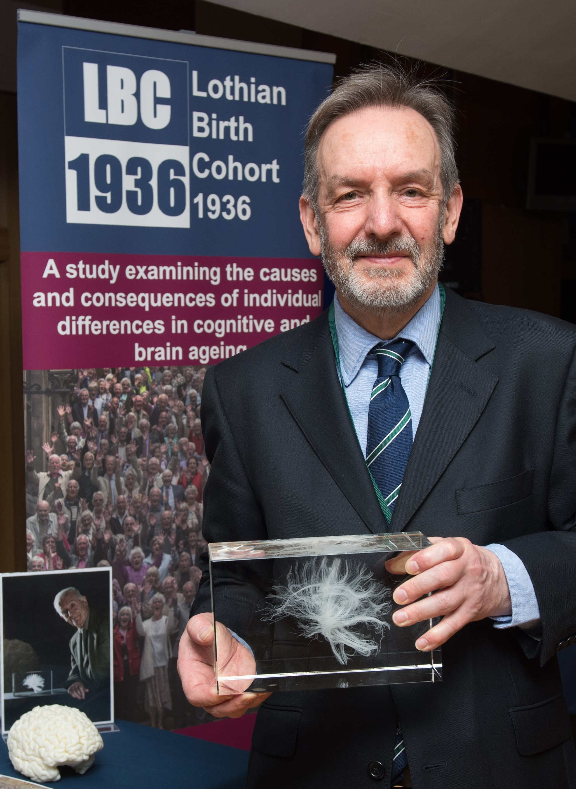 Ian Deary